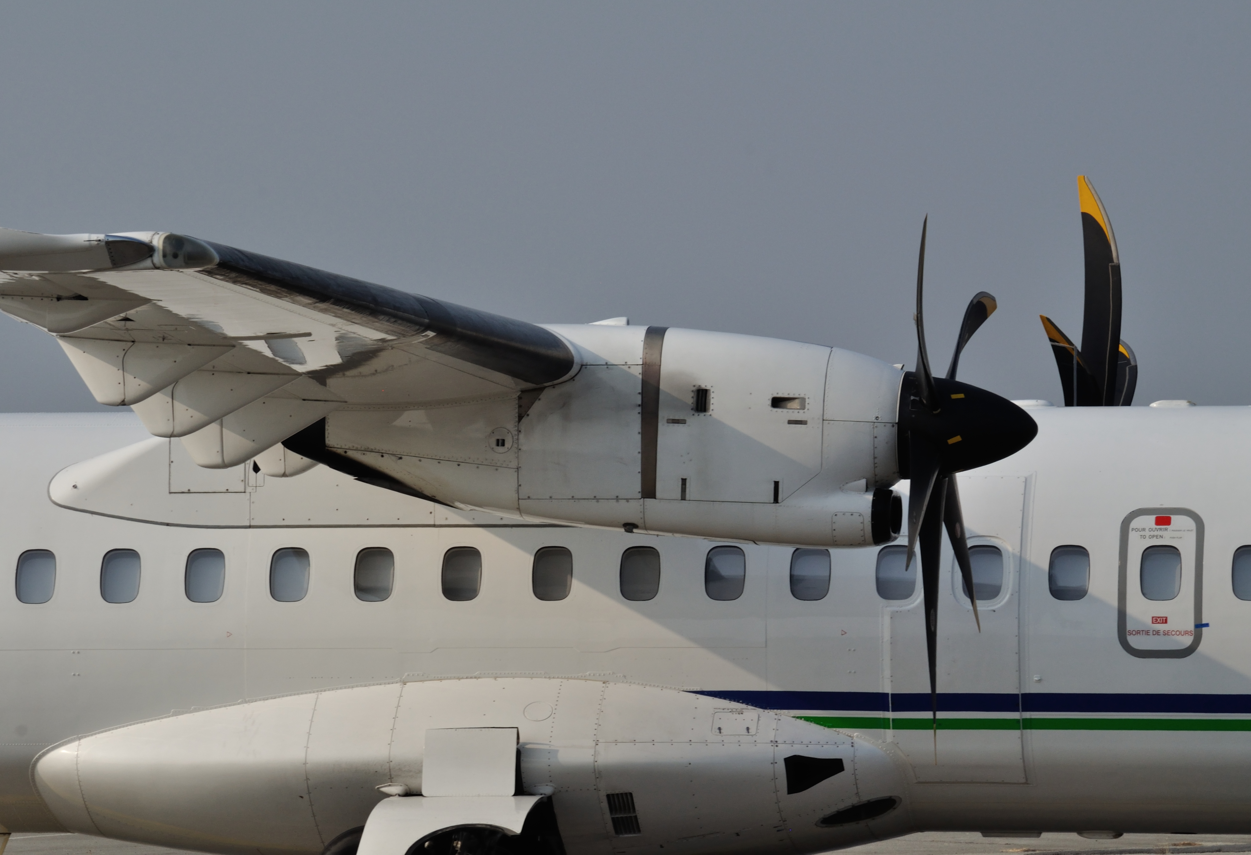 One missing blade on engine #2